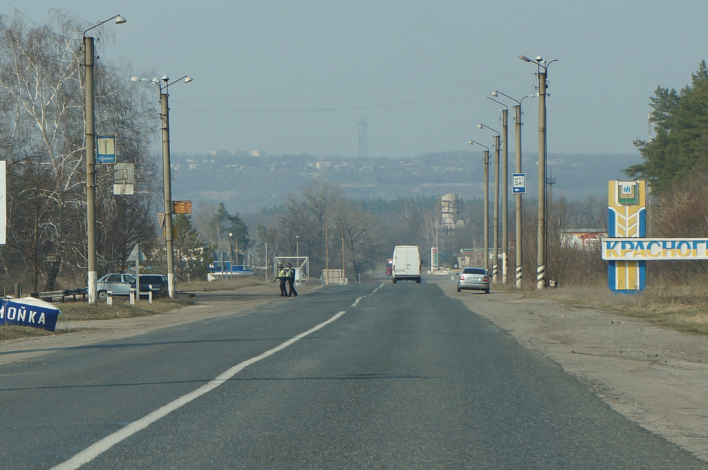 Southern entrance to Krasnohrad